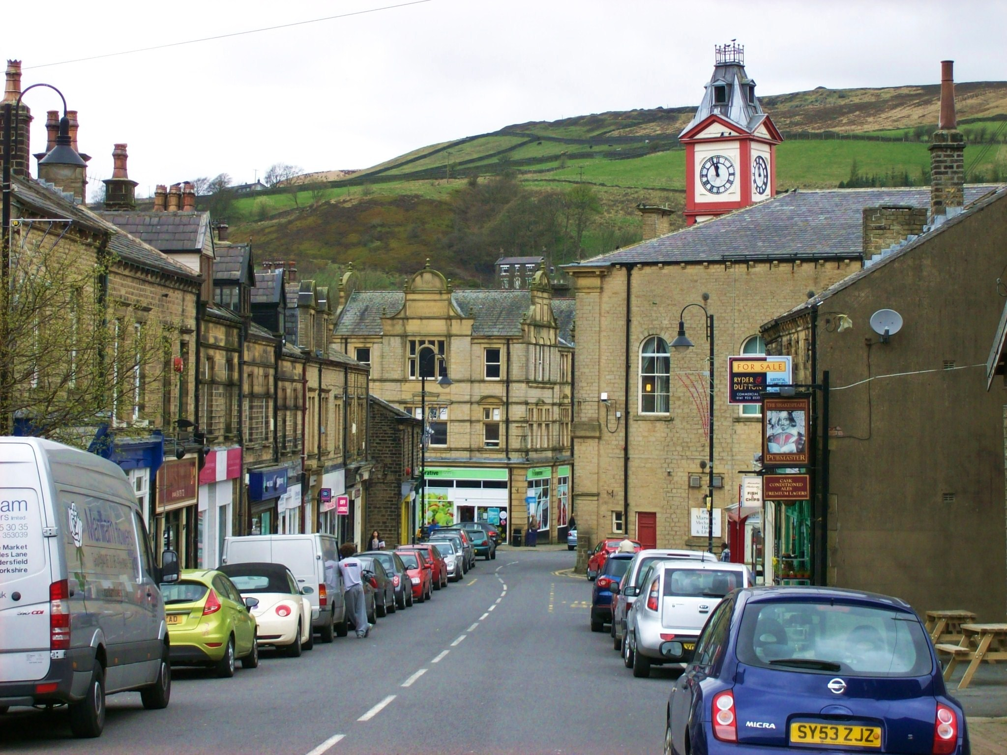 Marsden, Peel St.